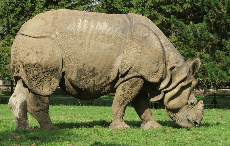 Indian Rhinoceros at Whipsnade Zoo